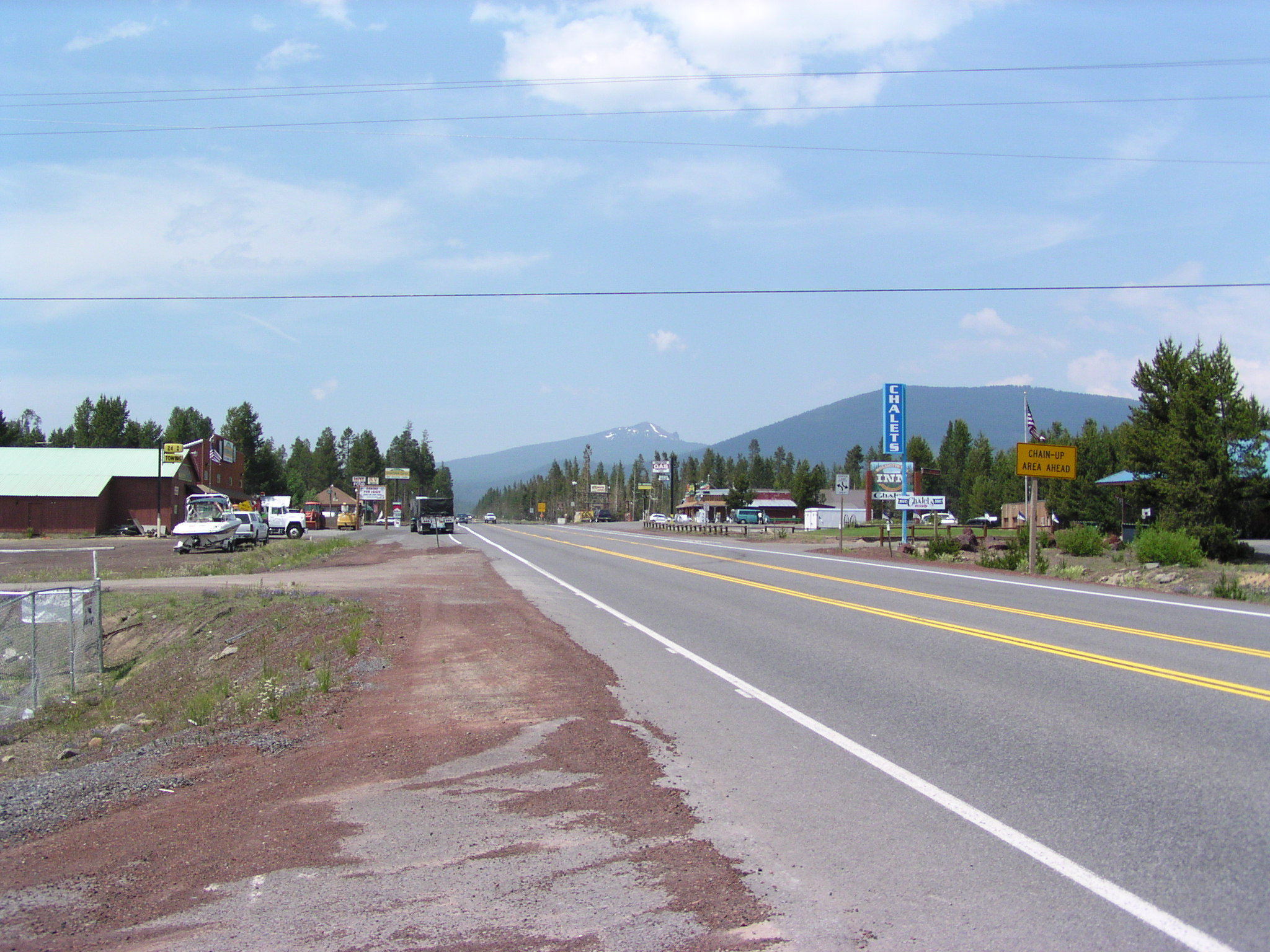 A view of Crescent Lake Junction with Maiden Peak in the distant background